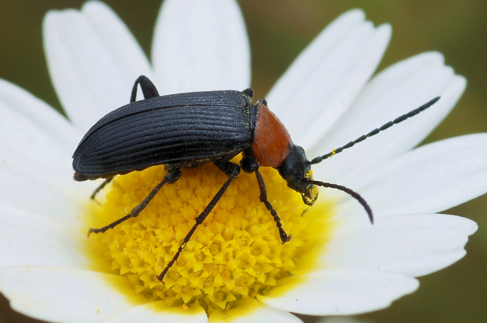 Heliotaurus ruficollis